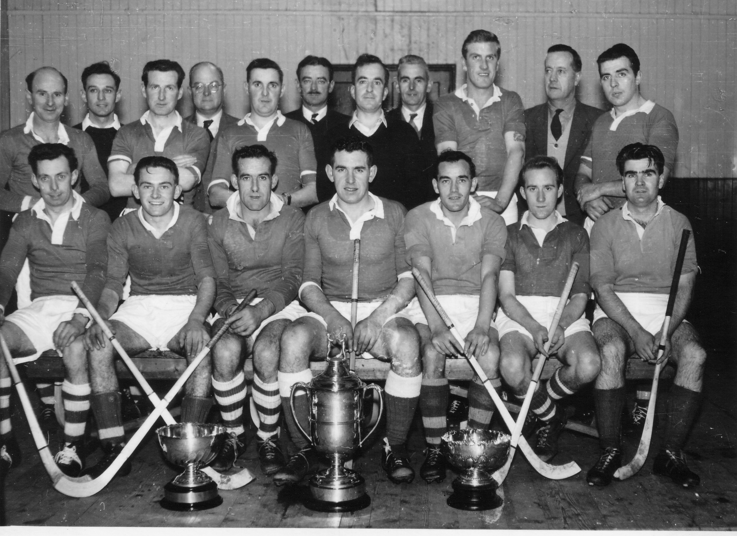 The Kilmallie team which won the Camanachd Cup in 1964 shown with the cup and other trophies won that season.